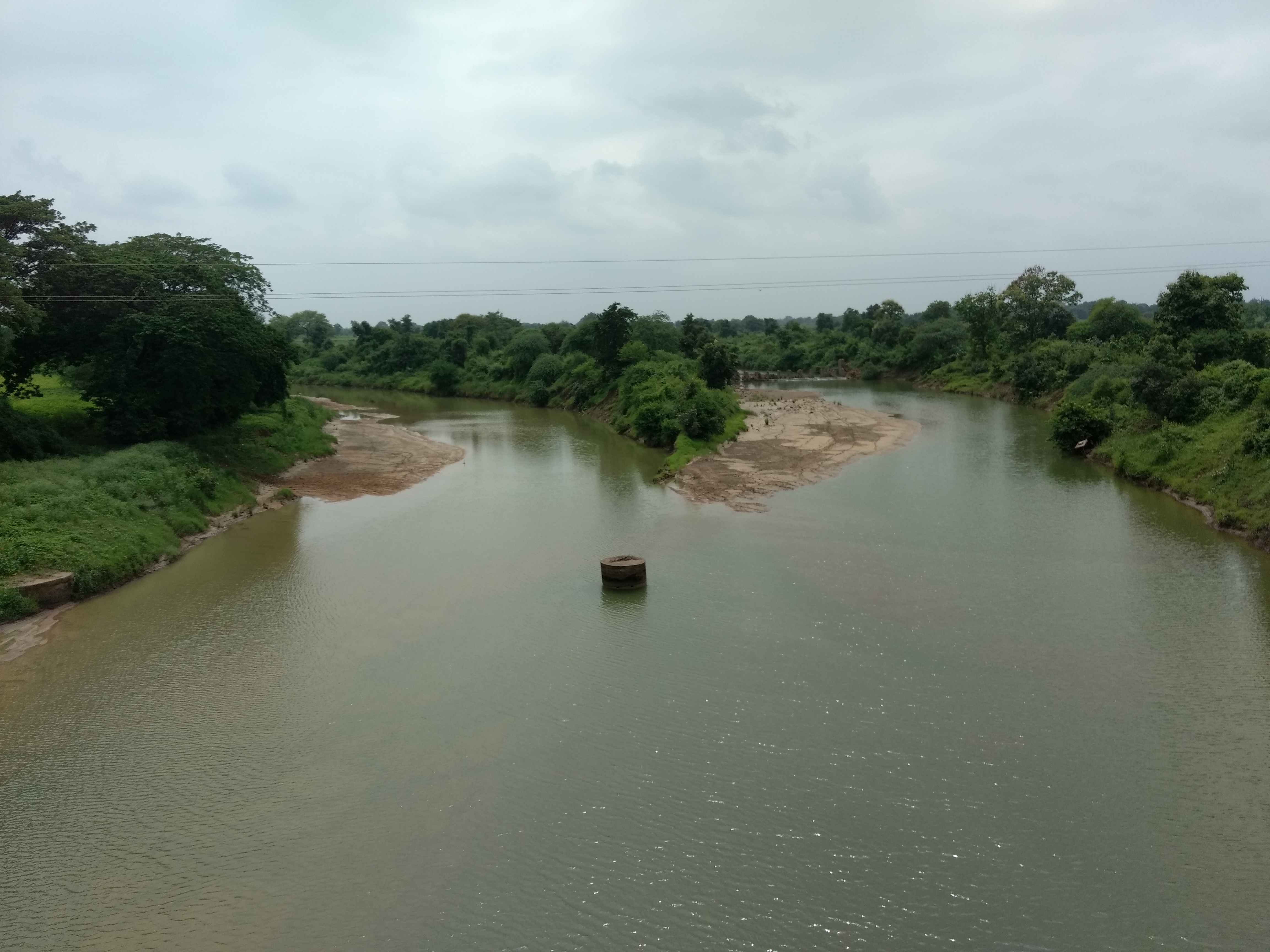 Maru river at confluence of its two streams near Bhiwapur.